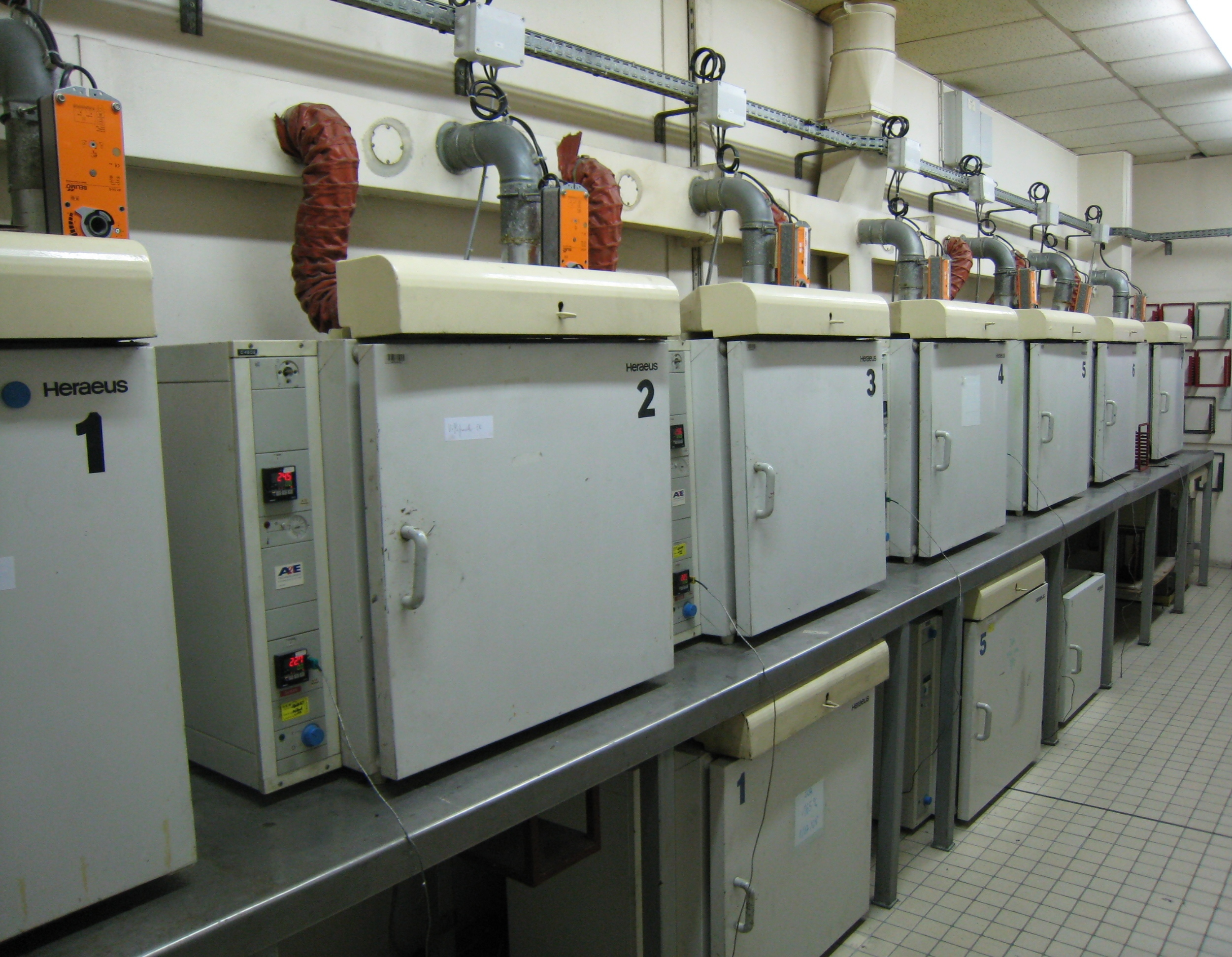 Ventilated heating ovens with electronic regulator and valve, controlled by PC, to realize heating cycles (heating speed, temperature and time programmable).